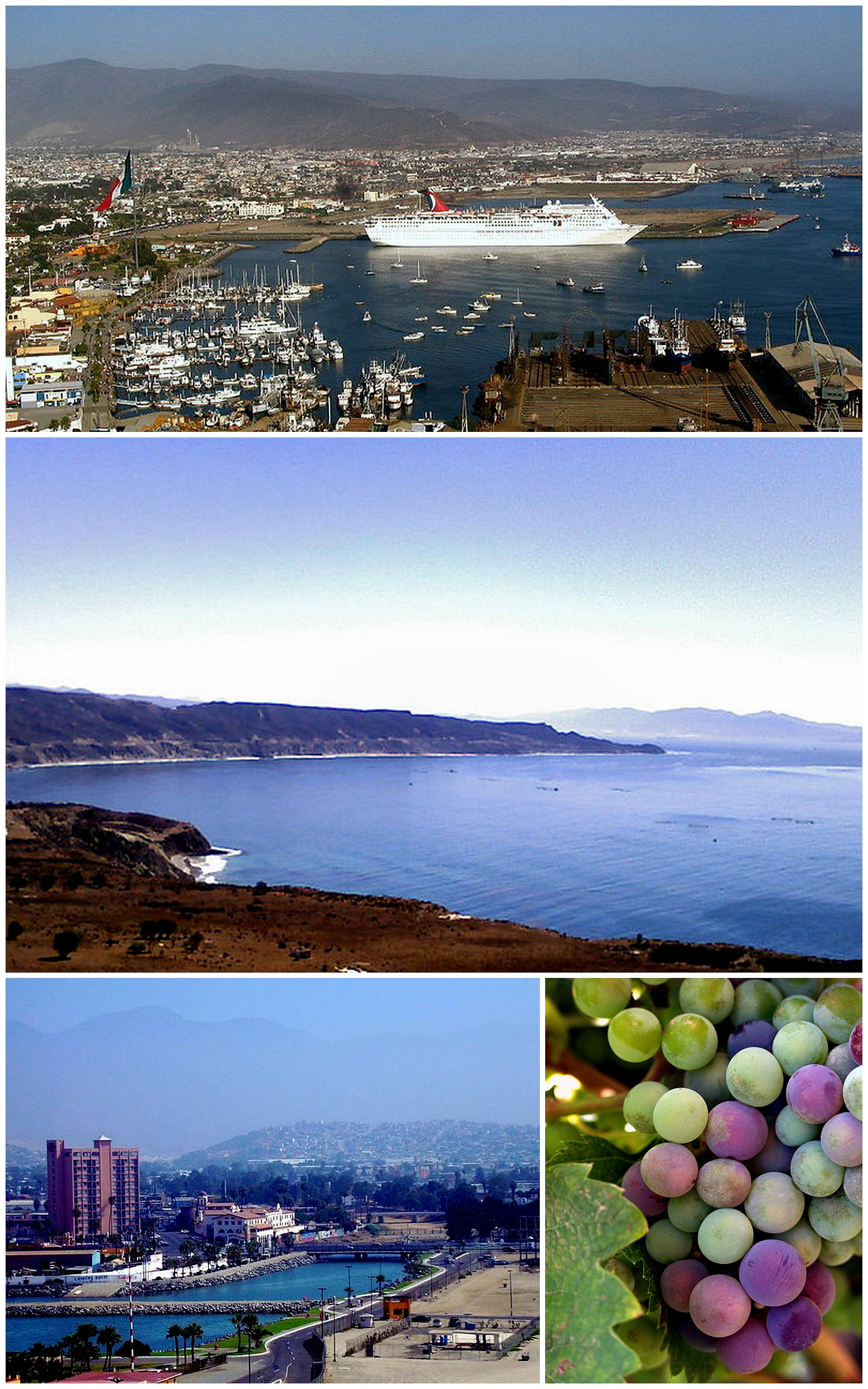 Montage of Ensenada pictures on commons